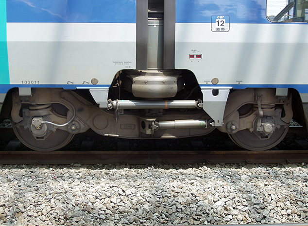 Jacobs bogie of KTX-I trainset 30